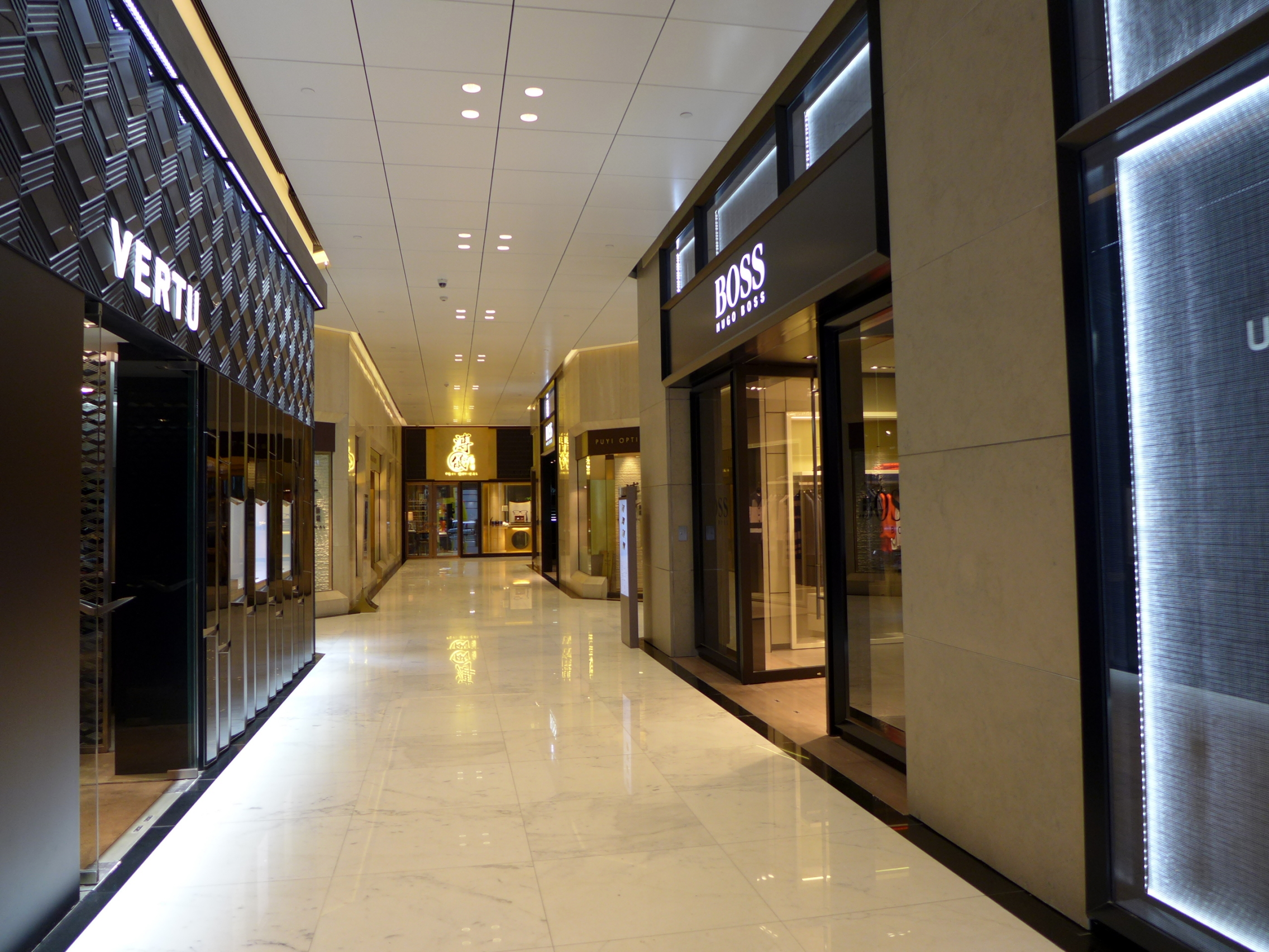 Central Building GF Access